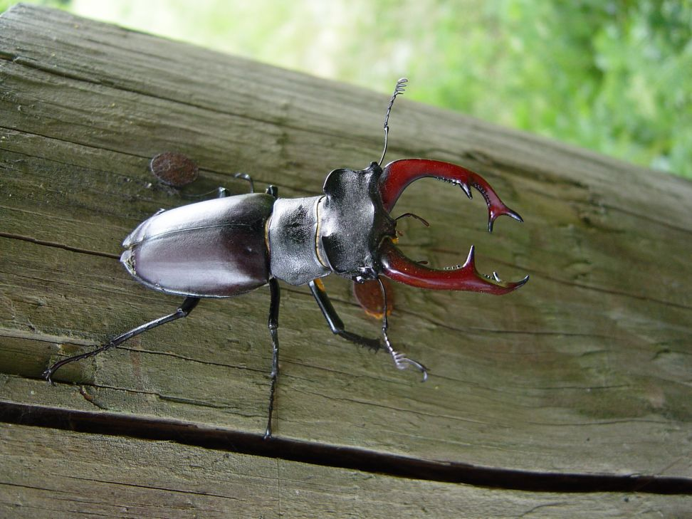 Author: Elisabeth Dauscher Lucanus cervus Location: Nieder-Wiesen, Rhineland-Palatinate, Germany